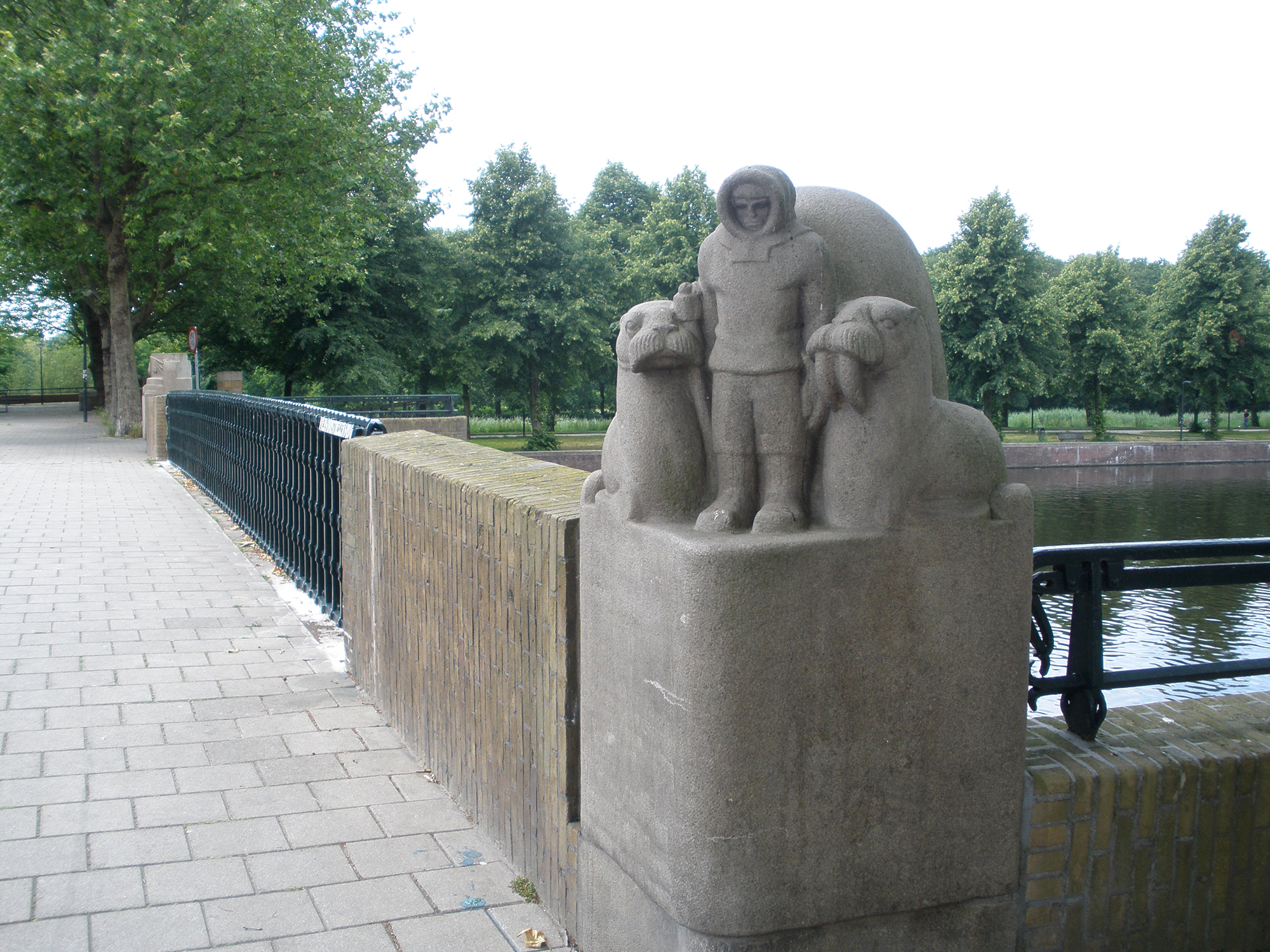 Vierwindstrekenbrug, a bridge in Amsterdam, the Netherlands. This "four corners of the world bridge" is part of the street Jan van Galenstraat and crosses the canal Admiralengracht. The 1933 bridge was designed by Piet Kramer, and the statues are by Hildo Krop. In the background the Erasmuspark.